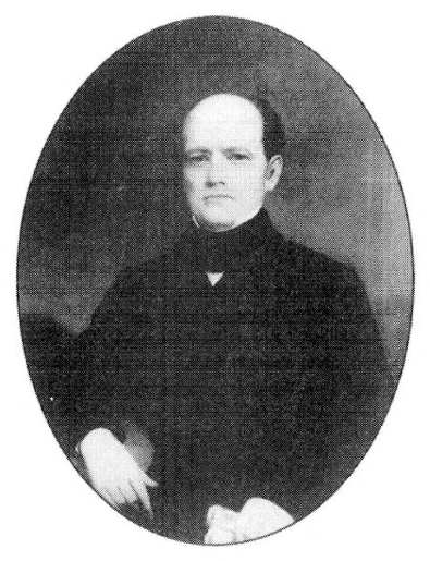 Portrait of Charles Gustavus Dahlgren by Washington B. Cooper, Oil on canvas, Tennessee State Museum, Frame 59.25 X 39.50, Record No: 1.869